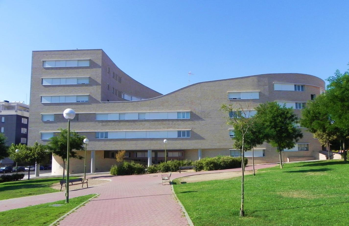 Housing building Carabanchel 26 in Madrid (Spain).